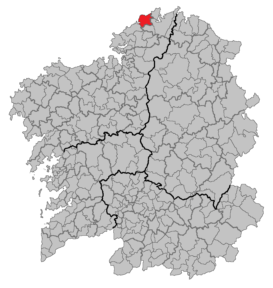 Location map of Cedeira, A Coruña, Galicia